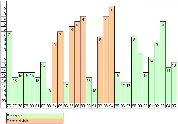 Dutch league positions of NEC, last 30 seasons